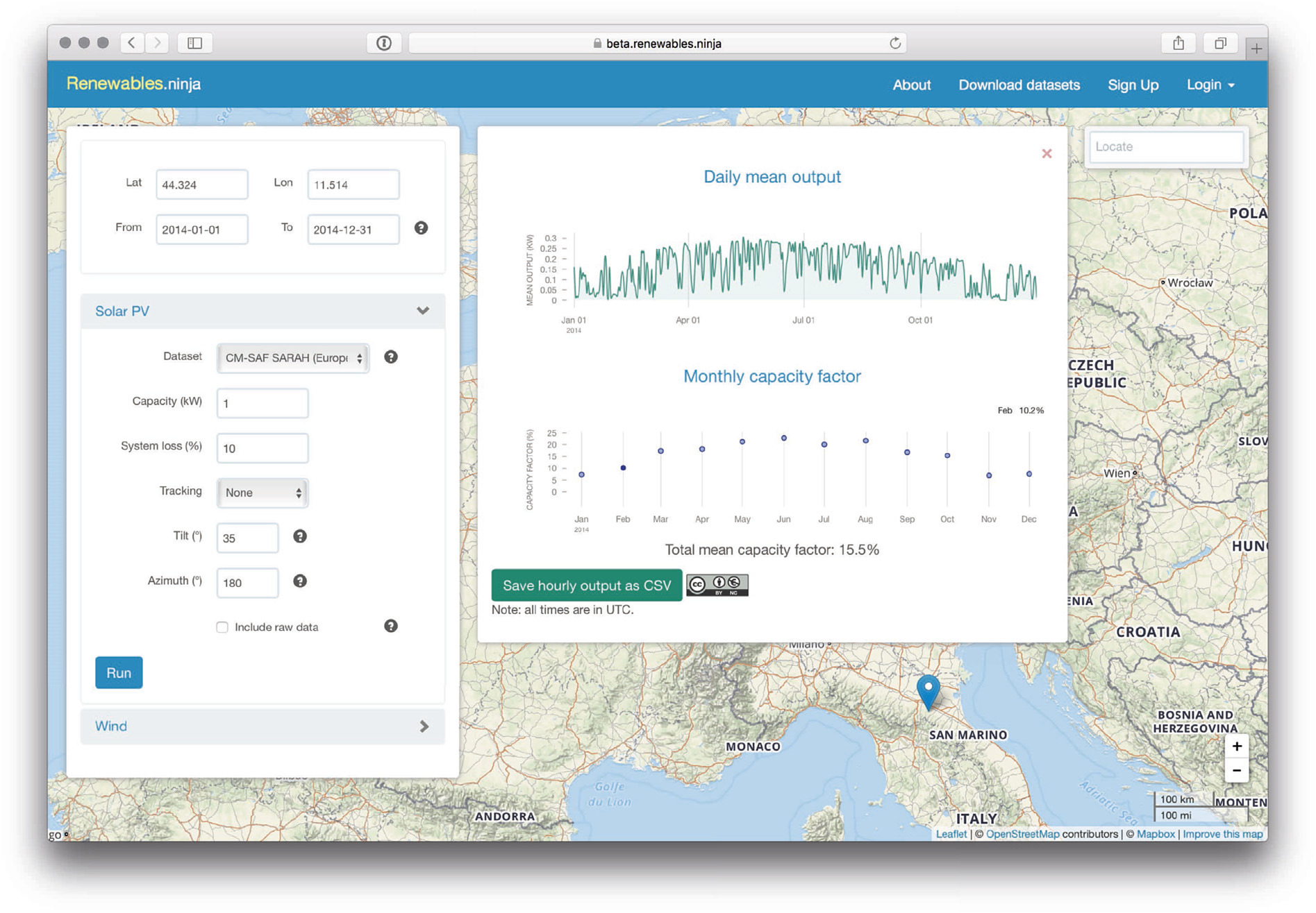 Screenshot from the Renewables.ninja photovoltaics and wind energy database website showing simulated photovoltaic output for a site in northern Italy for the year 2014